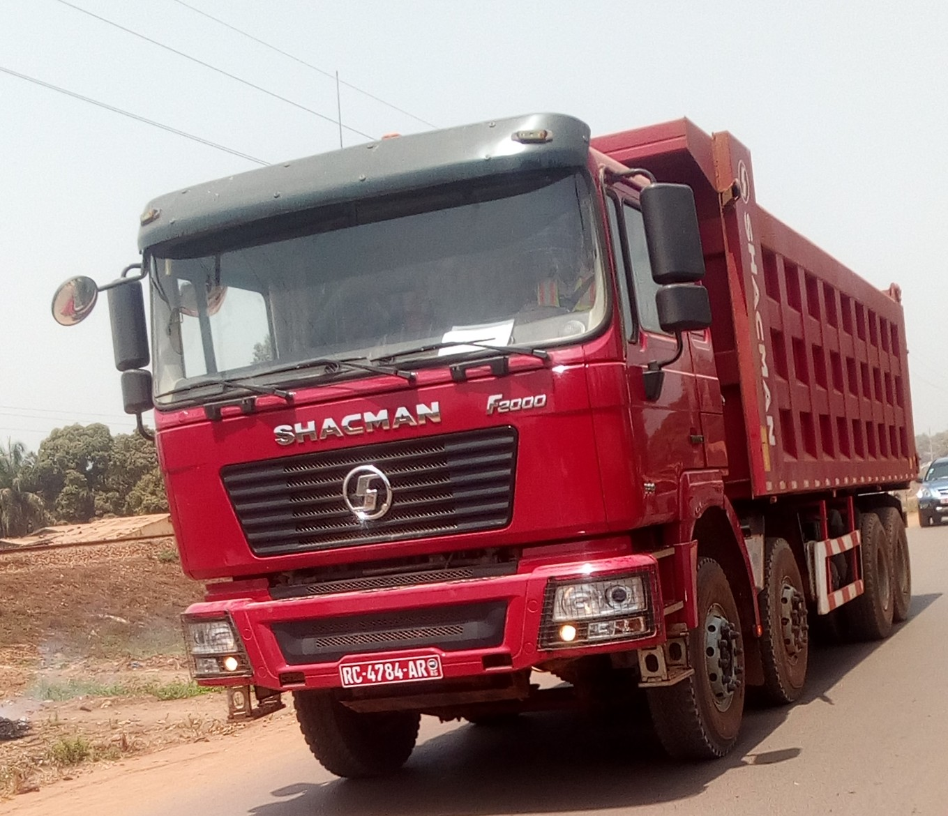 Camion Kamsar This is an image with the theme "Africa on the Move or Transport" from: Guinea